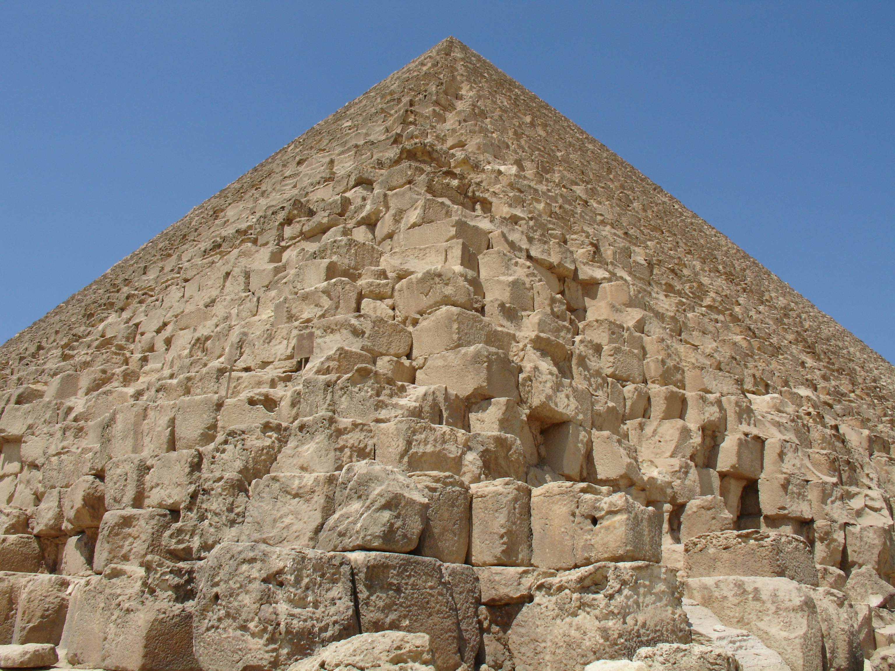 Great Pyramid of Giza Image taken by User:Mgiganteus1